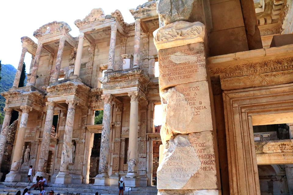 Celsus library in Ephesus (Efes)